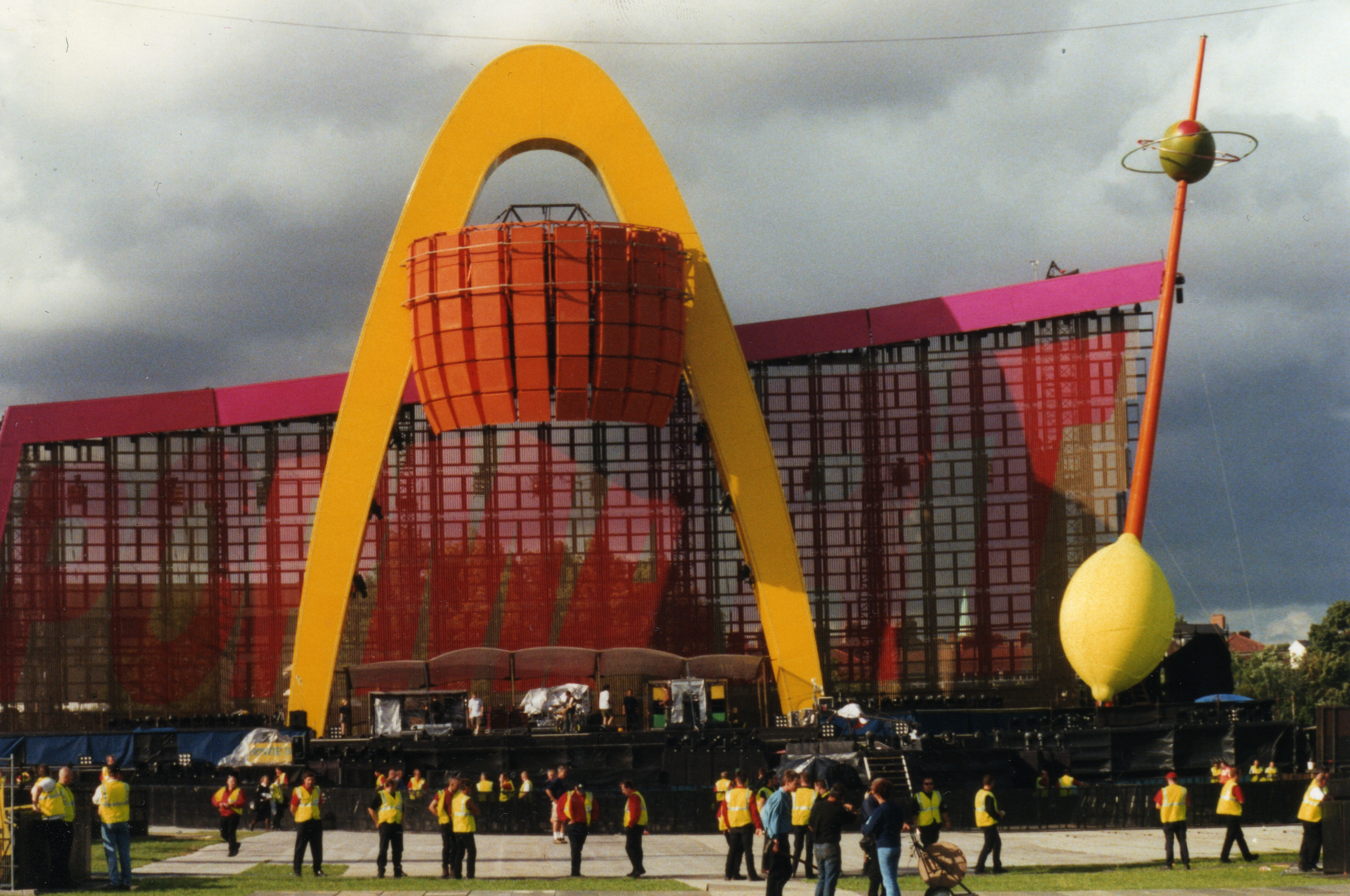 U2 PopMart Tour, sukatubi universale, Belfast, Northern Ireland, August 1997